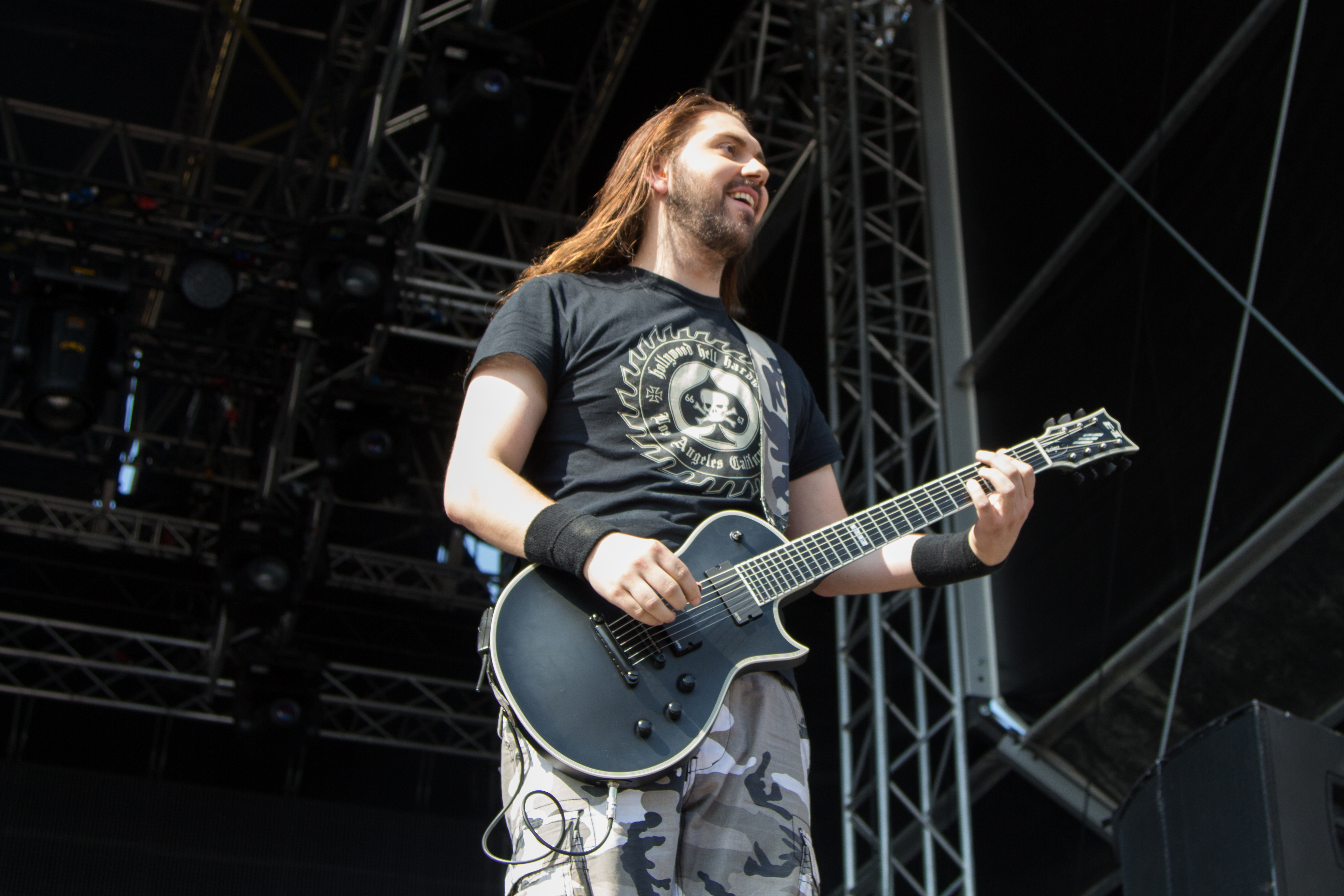 Chris Rörland from Sabaton at the See-Rock Festival 2014